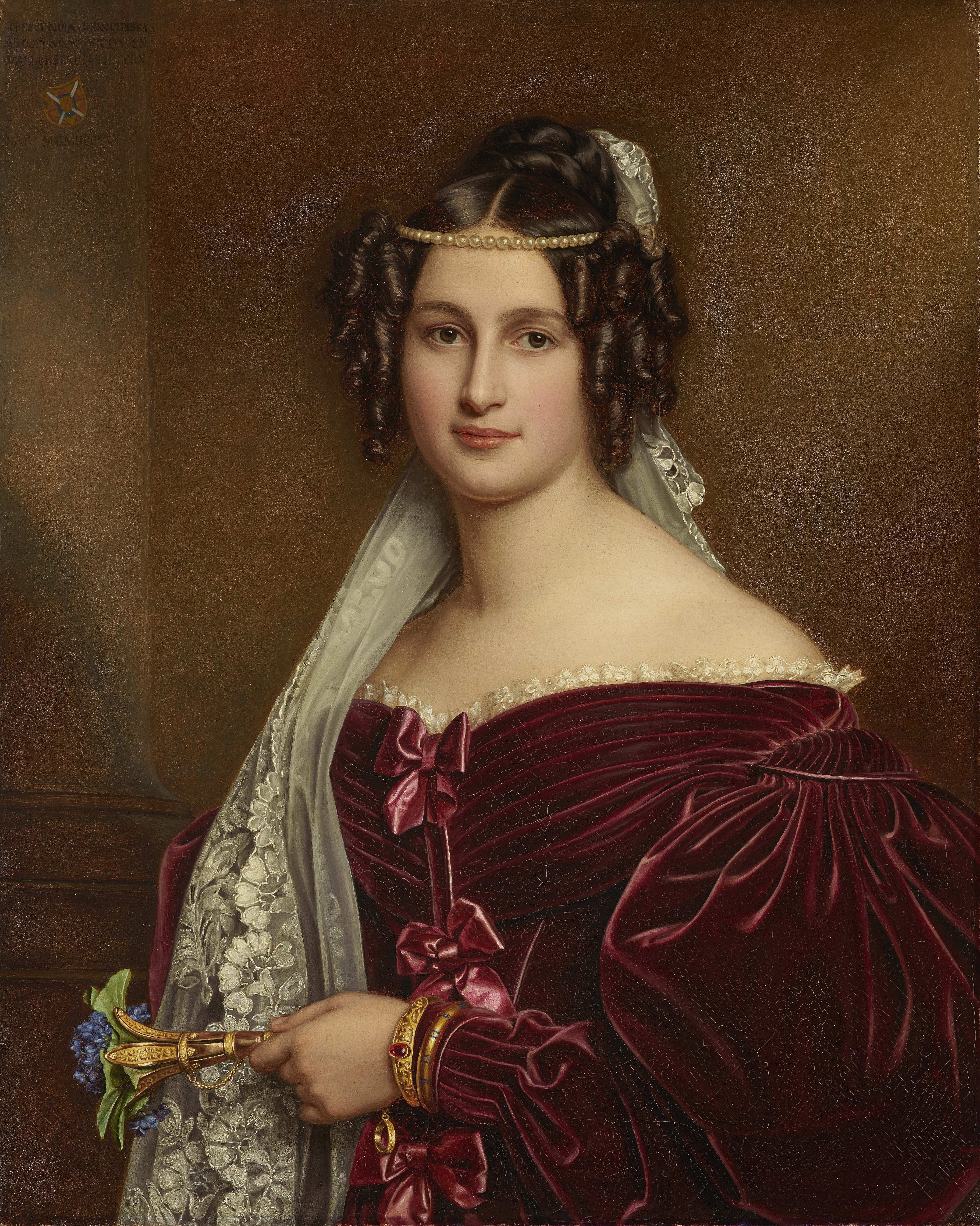 Portrait of Crescentia Bourgin